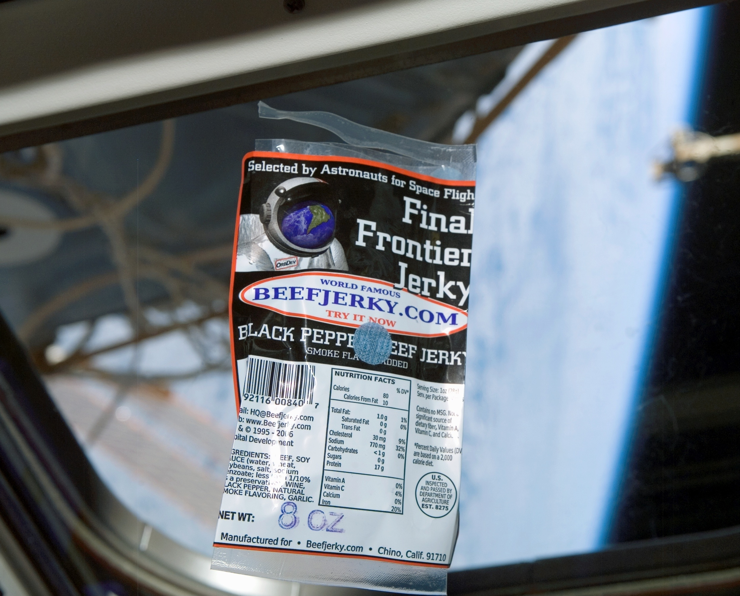 Beef Jerky brand jerky on the International Space Station with Earth visible out the big window. Carried to ISS aboard STS-118, Endeavour Space Shuttle flight.